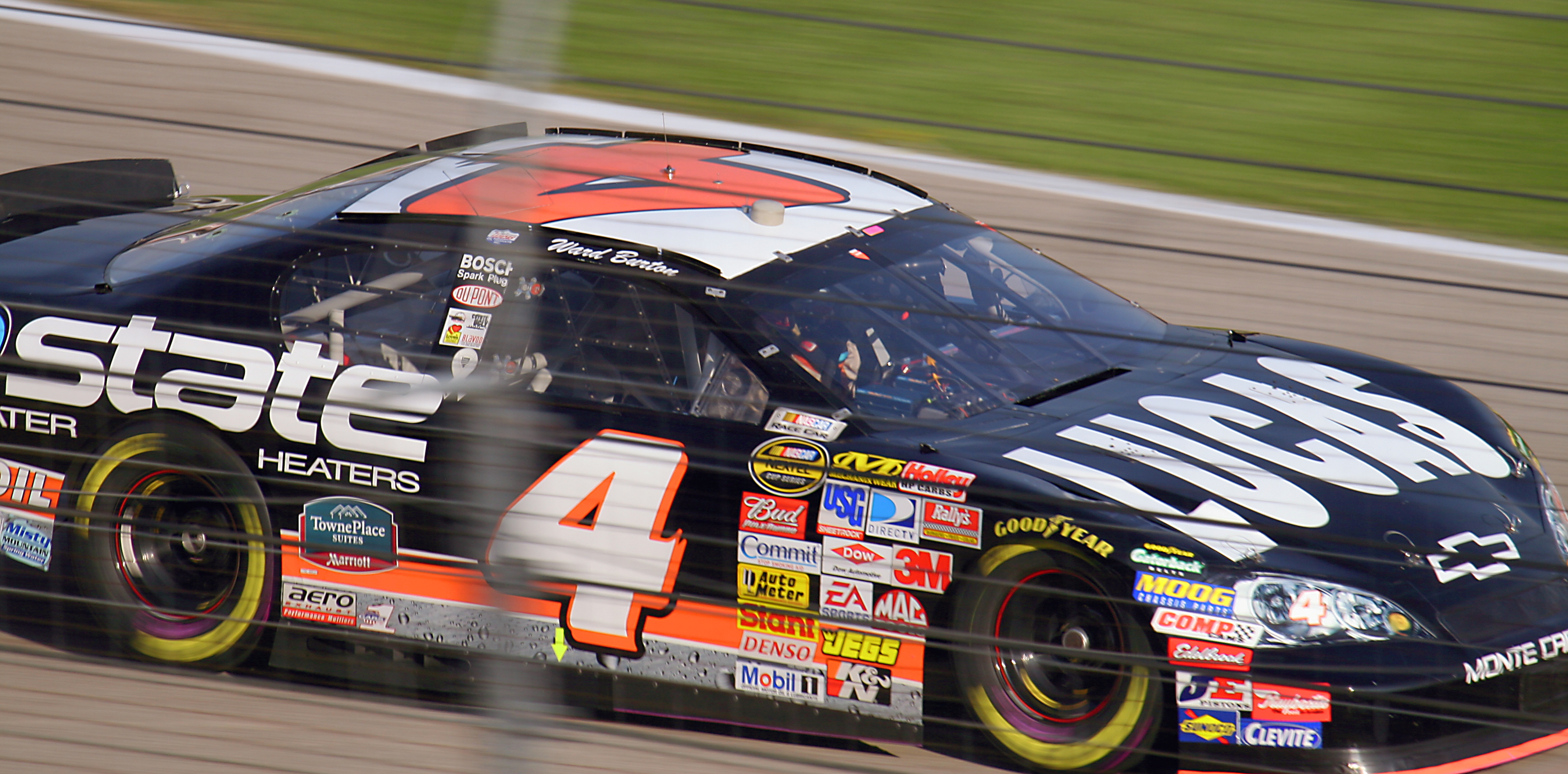 NASCAR racer Ward Burton's 2007 Monte CarloWard Burton